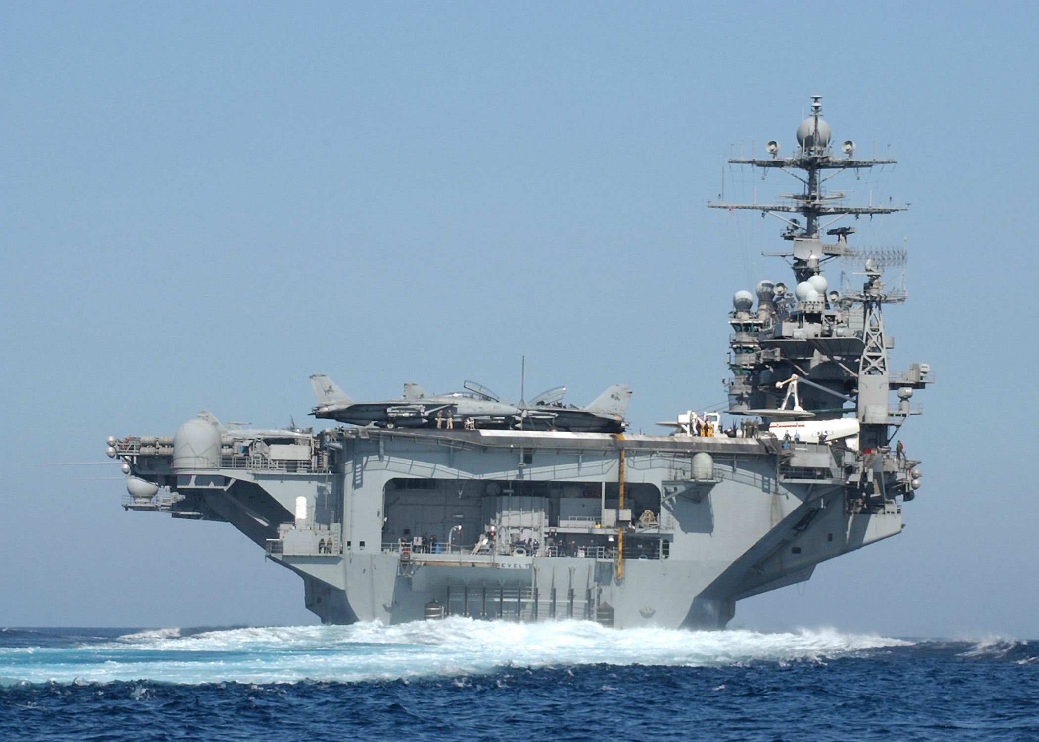 Souda Bay, Crete, Greece (Feb. 22, 2006) – The USS Theodore Roosevelt (CVN-71) heads to sea following a logistics stop on the Greek island of Crete. Roosevelt and Carrier Air Wing Eight (CVW-8) are currently underway on a regularly scheduled deployment supporting maritime security operations.